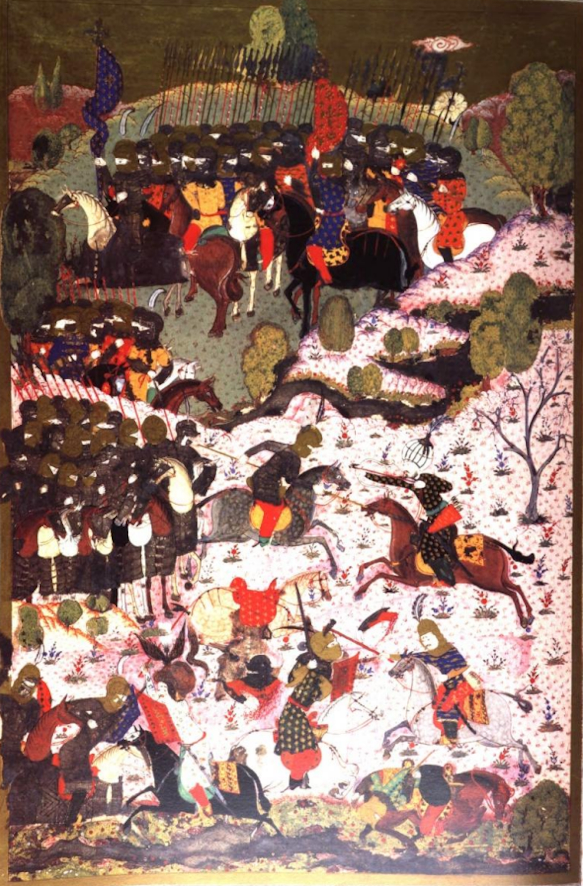 Illustrations of Ottoman soldiers from the Süleymanname